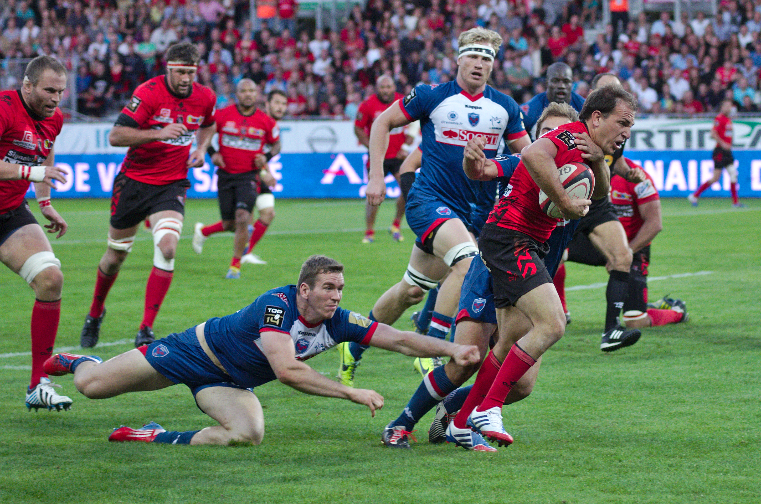 USO-FCG - 20140913 - Tacle